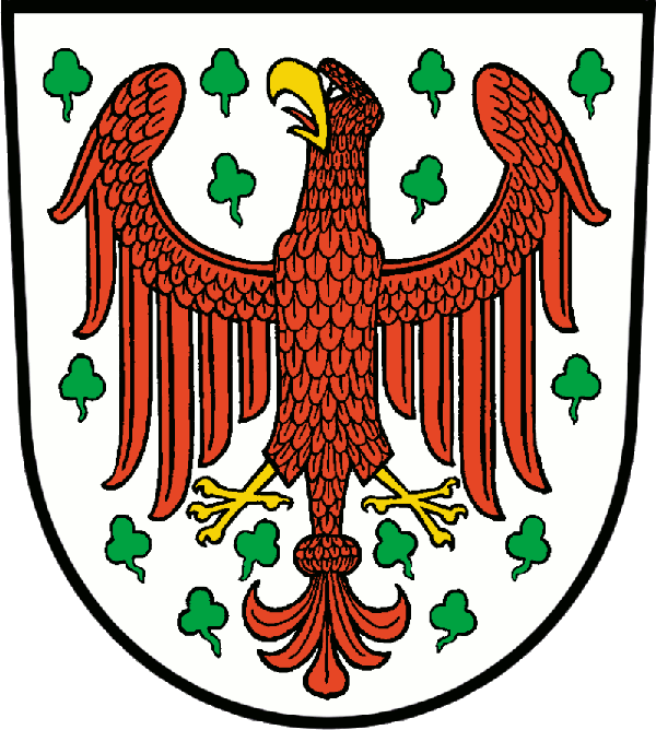 Coat of arms of Templin